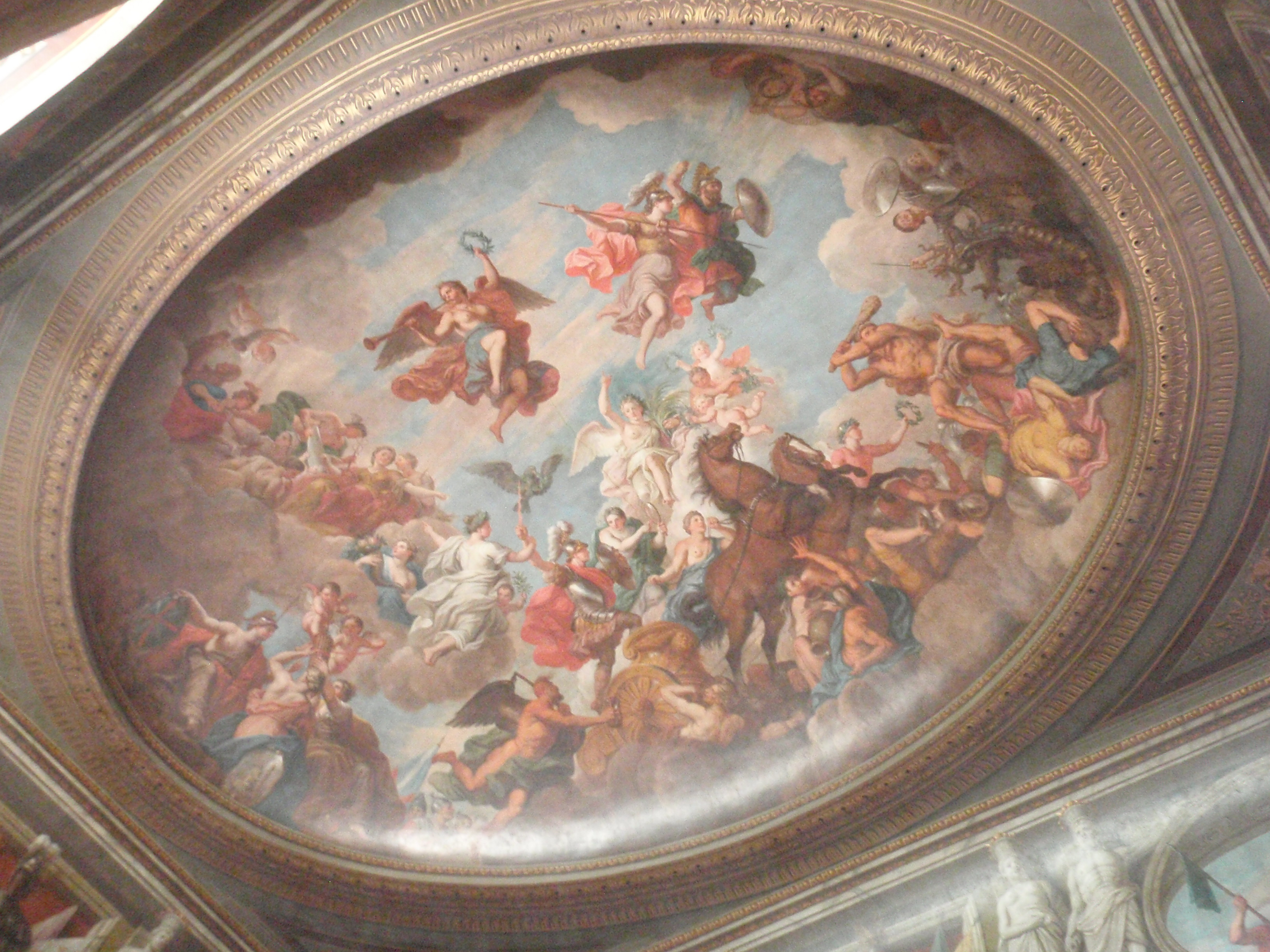 Blenheim